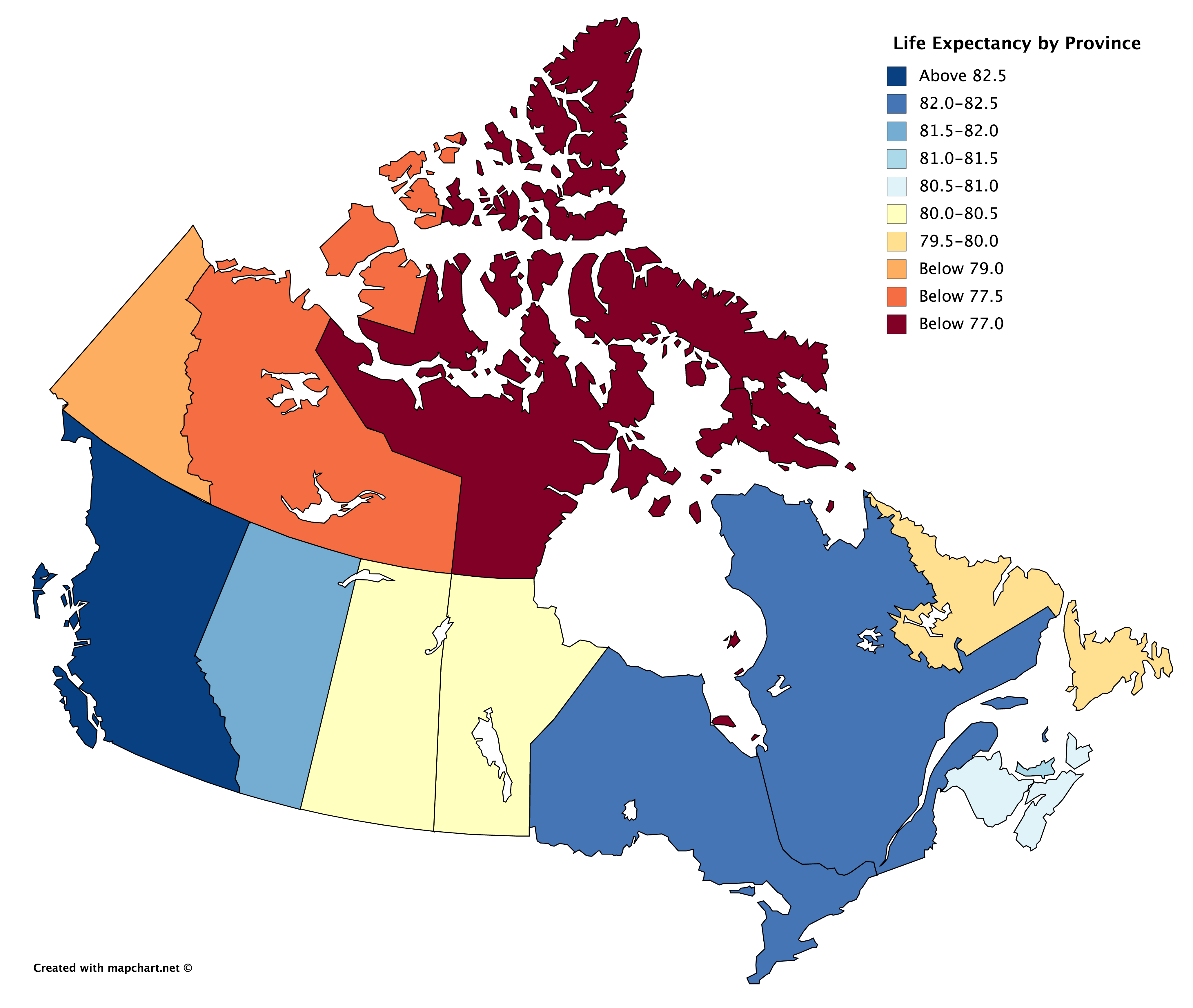 Life Expectancy in Canada in 2017